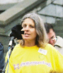 Laila Harre, former leader of the Alliance party, in front of the NZ Parliament